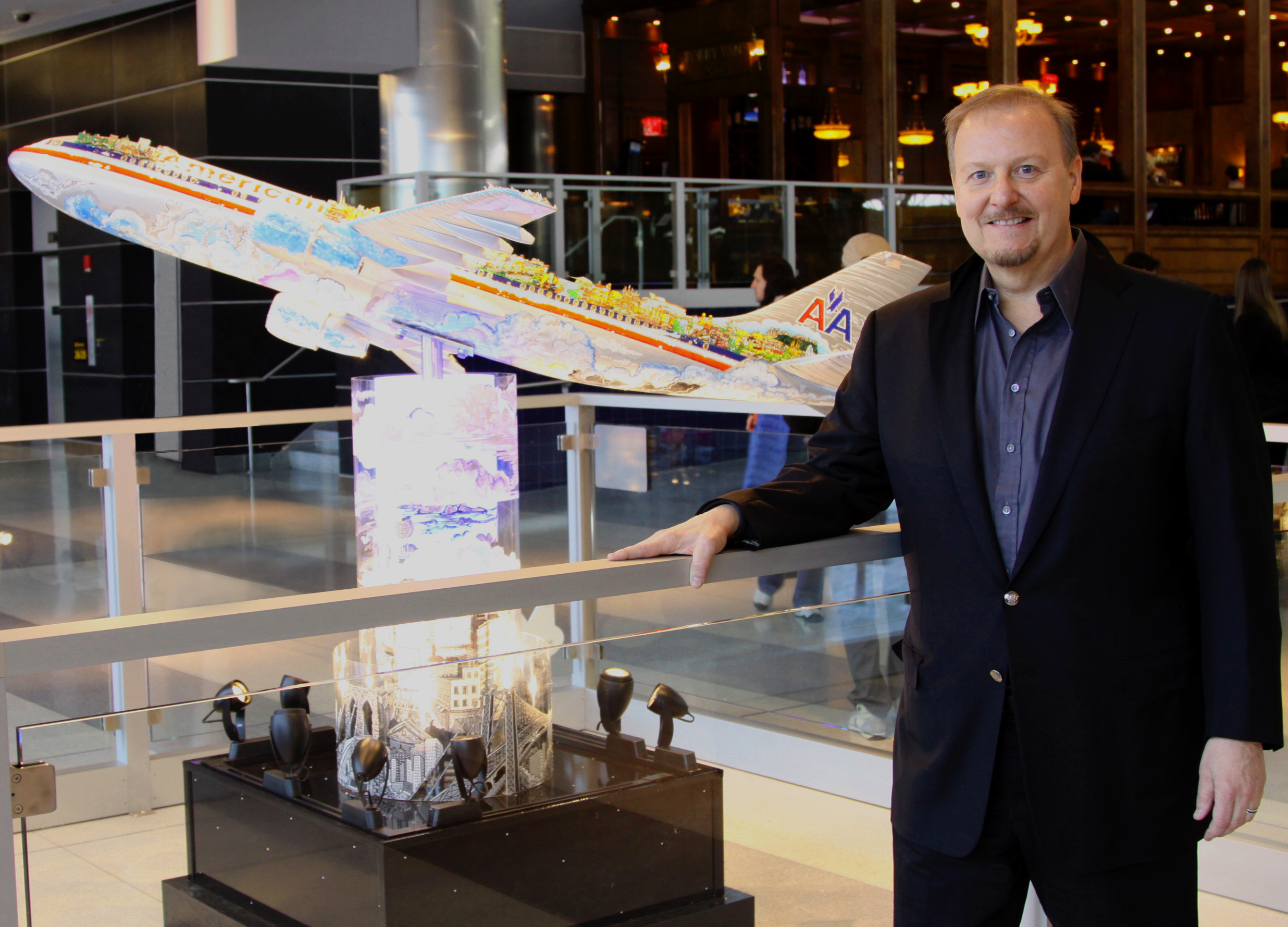 American 3-D pop artist, Charles Fazzino, with his sculpture "From New York...to the World" at JFK airport, New York City in 2013.